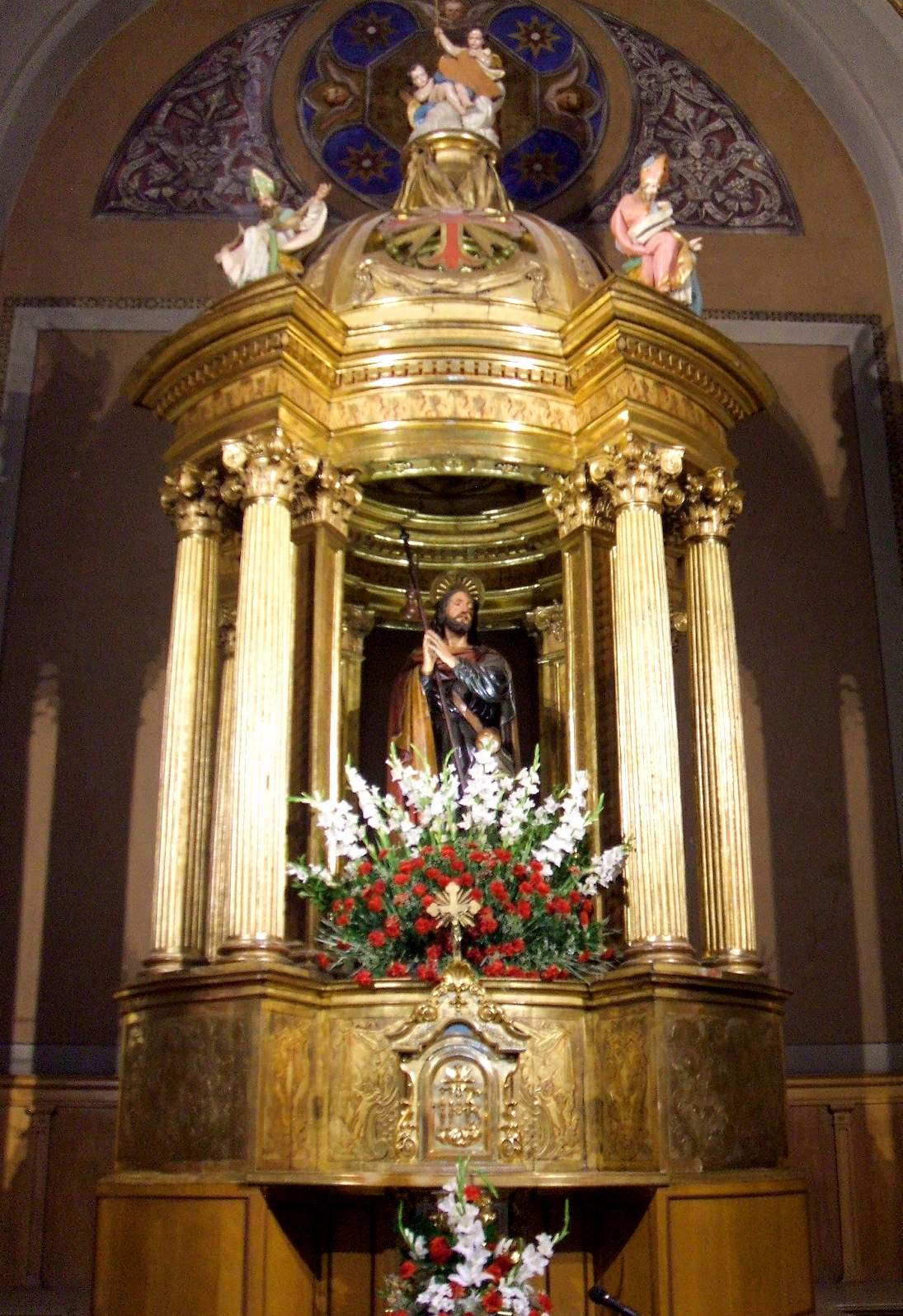 Retablo-templete de la Capilla de Santiago o de la Comunión, en la Basílica del Pilar de Zaragoza